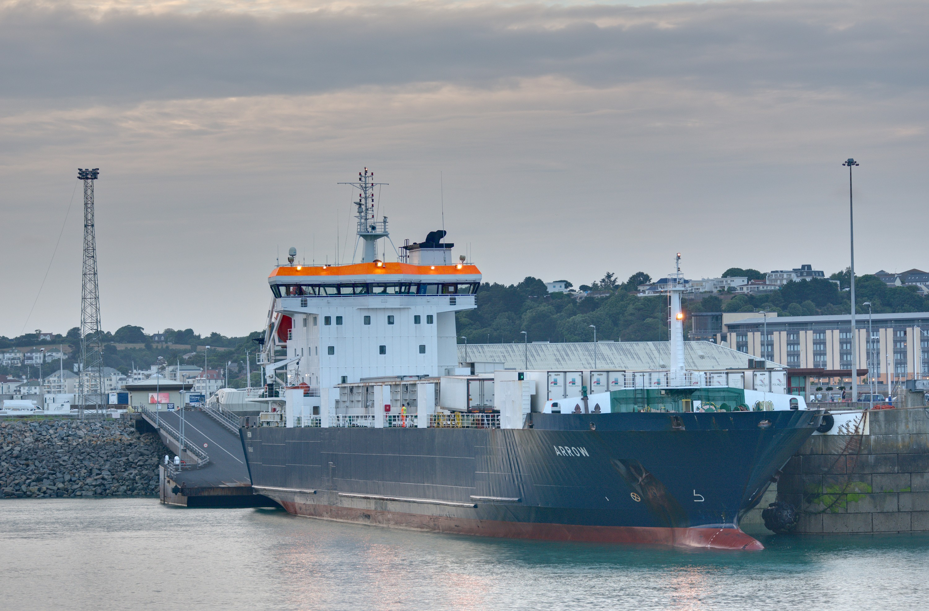 MS Arrow Cargo Ferry at St Helier Harbour